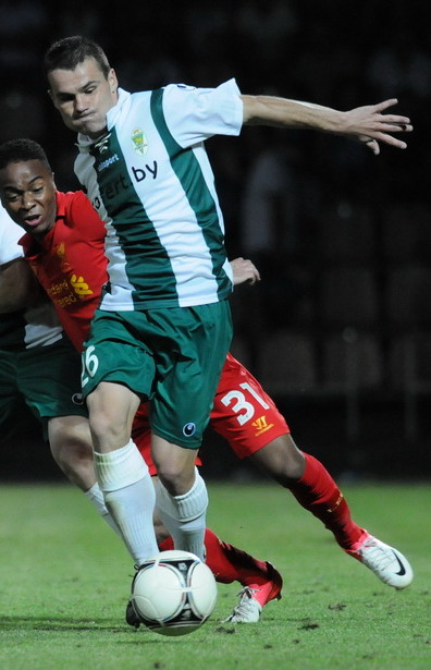 Polish football player Tomasz Nowak during 3rd round UEFA Europa League qualifier FC Gomel - Liverpool F.C.